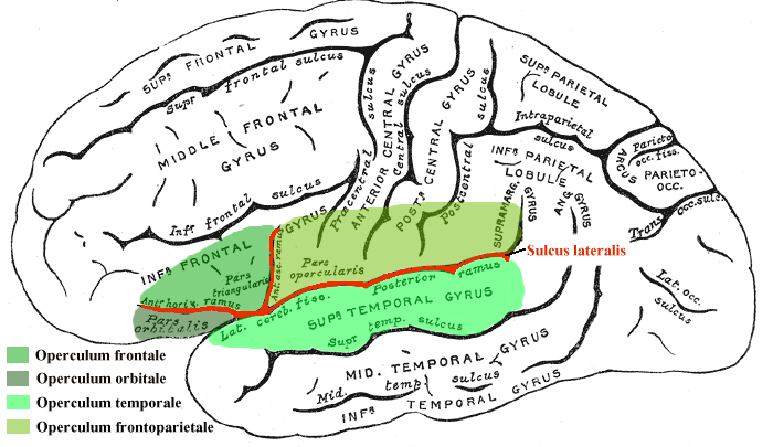 OperculumOperculum of the brain